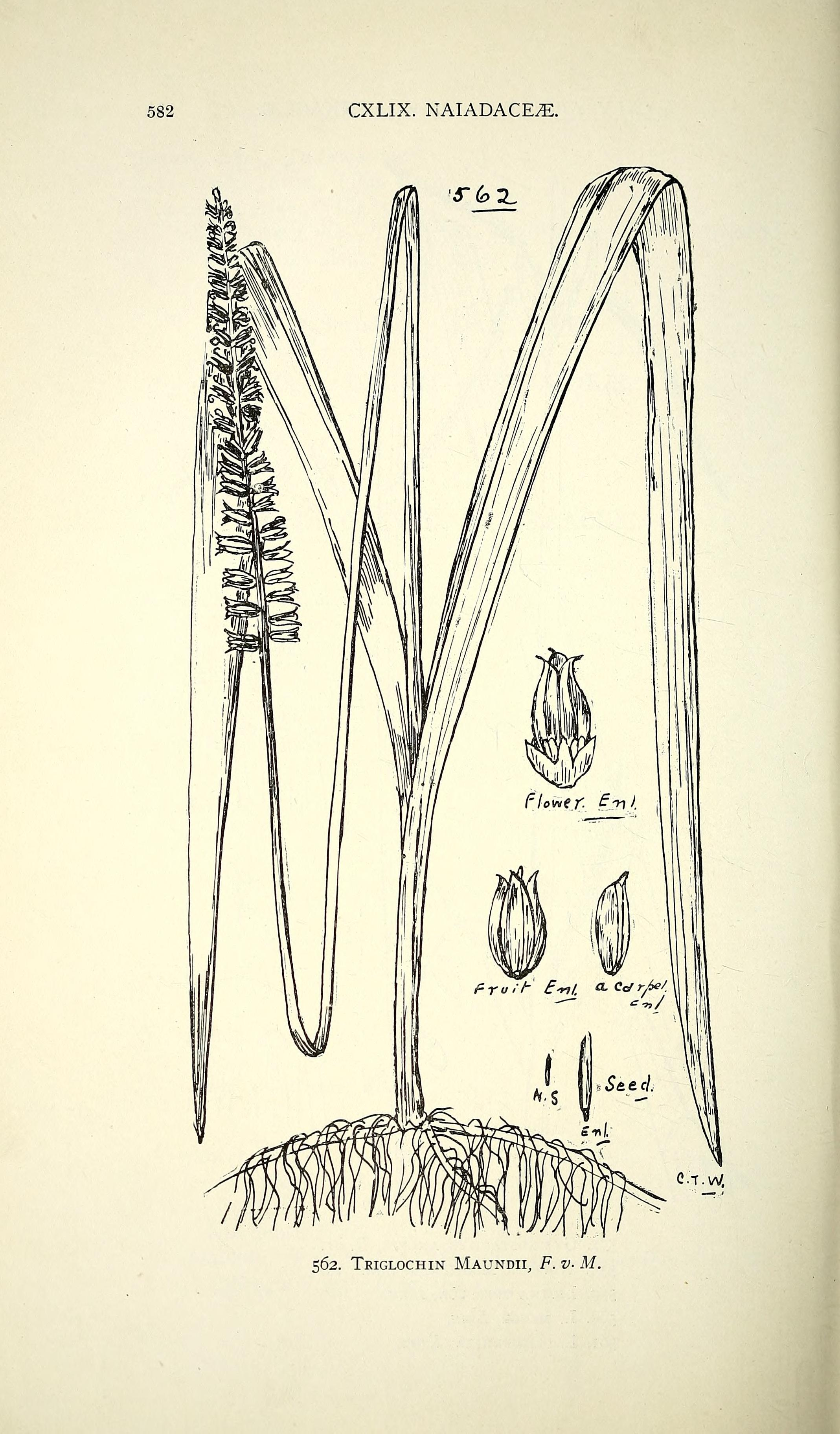 Title: Comprehensive catalogue of Queensland plants, both indigenous and naturalised. To which are added, where known, the aboriginal and other vernacular names; with numerous illustrations, and copious notes on the properties, features, &c., of the plants Year: 1909 (1900s) Authors: Bailey, Frederick Manson, 1827-1915 Subjects: Botany Publisher: Brisbane, A. J. Cumming, government printer Text Appearing Before Image: 557. Gymnostachys anceps, R. Br. 558. WOLFFIA ARRHIZA, Wimtll., VCLT 559. Lemna trisulca, Linn. 560. L. minor, Linn. 561. L. OLiGOREiiizA, Kurs. 582 CXLIX. NAIADACEiE. Text Appearing After Image: T.W, 562. Triglochin Maundii, F. v. M. CXLIX. NAIADACE^. 583 Tribe II.—Aponogetonete. Aponogeton, Tliunb. monostachyus, Linn.—■ Kapabina of Bloomfield River natives.elongatus, F. v. M. Tribe III.—Potame^s.Potamogeton, Lin n.—Pond-weed. Section I.natans, Linn. tricarinatus, F.v.M. (Fig. 563.)Tepperi, A. Bennett.javanicus, Hassk. = P. tenuicaitlis, F. v. M. Section II. perfoliatus, Linn. var. minor. Bail., n. var.—Stems flat, narrow. Leavesalmost orbicular, the largest seen about 8 lines diam.,very dense near the ends of the branches. Pedunclesabout 1 inch long. Spikes dense, 3 to 5 lines long.Hab.: Tambourine Mountain (/. H. Simmonds).crispus, Linn.obtusifolius, Mert. ct Koch. Section III. pectinatus, Linn.—Fennel Pondweed. Ruppia, Linn. maritima, Linn. Tribe IV.—Zostere/e. Zostera, Linn.—Grass-wrack. nana, Rotli.—Dugong Grass. Tribe V.—Naiade.e.Naias, Linn. major, Allionl. ■var. intermedia, A. Br.tenuifolia, R. Br.Browniana, A. B. Rendle, Trans. Linn. Soc. 2nd